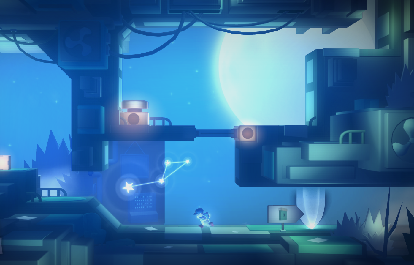 Pid gameplay screenshot. The player character navigates the Living Room level. Released in 2012, the game was developed by Might and Delight.